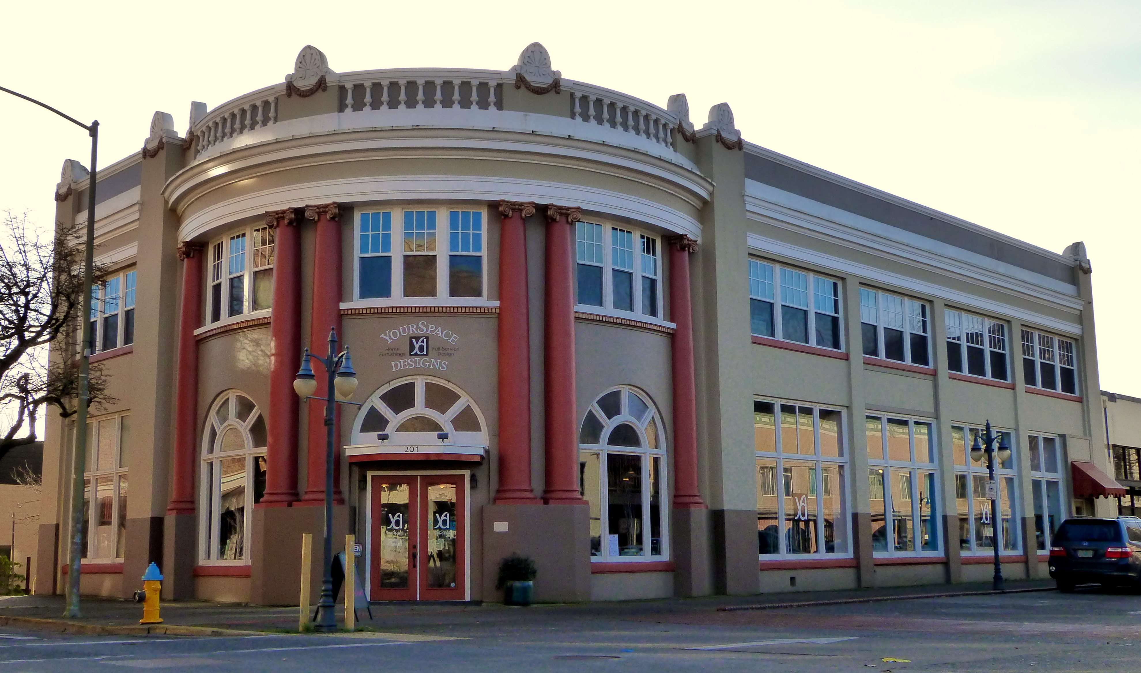 The historic Coos Bay National Bank Building (built 1923), located at 201 Central Avenue in Coos Bay, Oregon, United States, is listed on the US National Register of Historic Places.